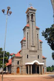 C S I Amaravila in Neyyattinkara town was established in 1810 and it was known as Emily Chappel during those periods. It is the oldest church in Neyyattinkara town.